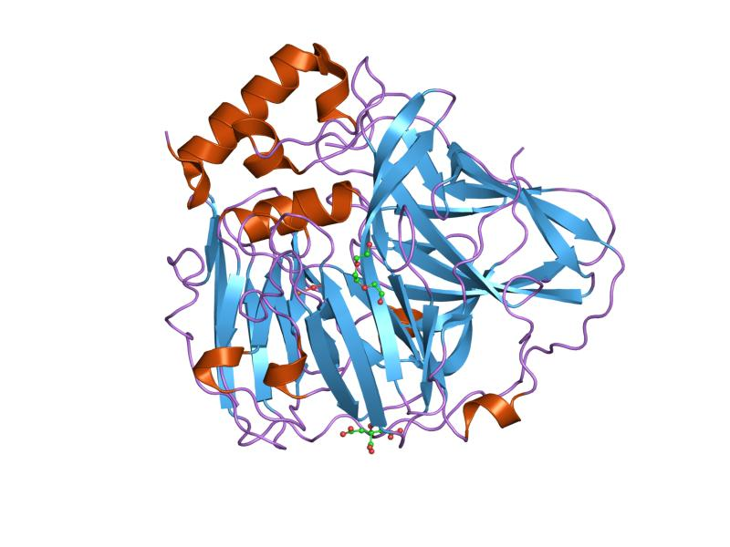 Cartoon representation of the molecular structure of protein registered with 2fqg code.